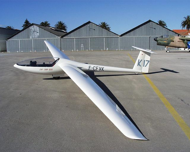 Author and source: José Aguiar Year: 2001